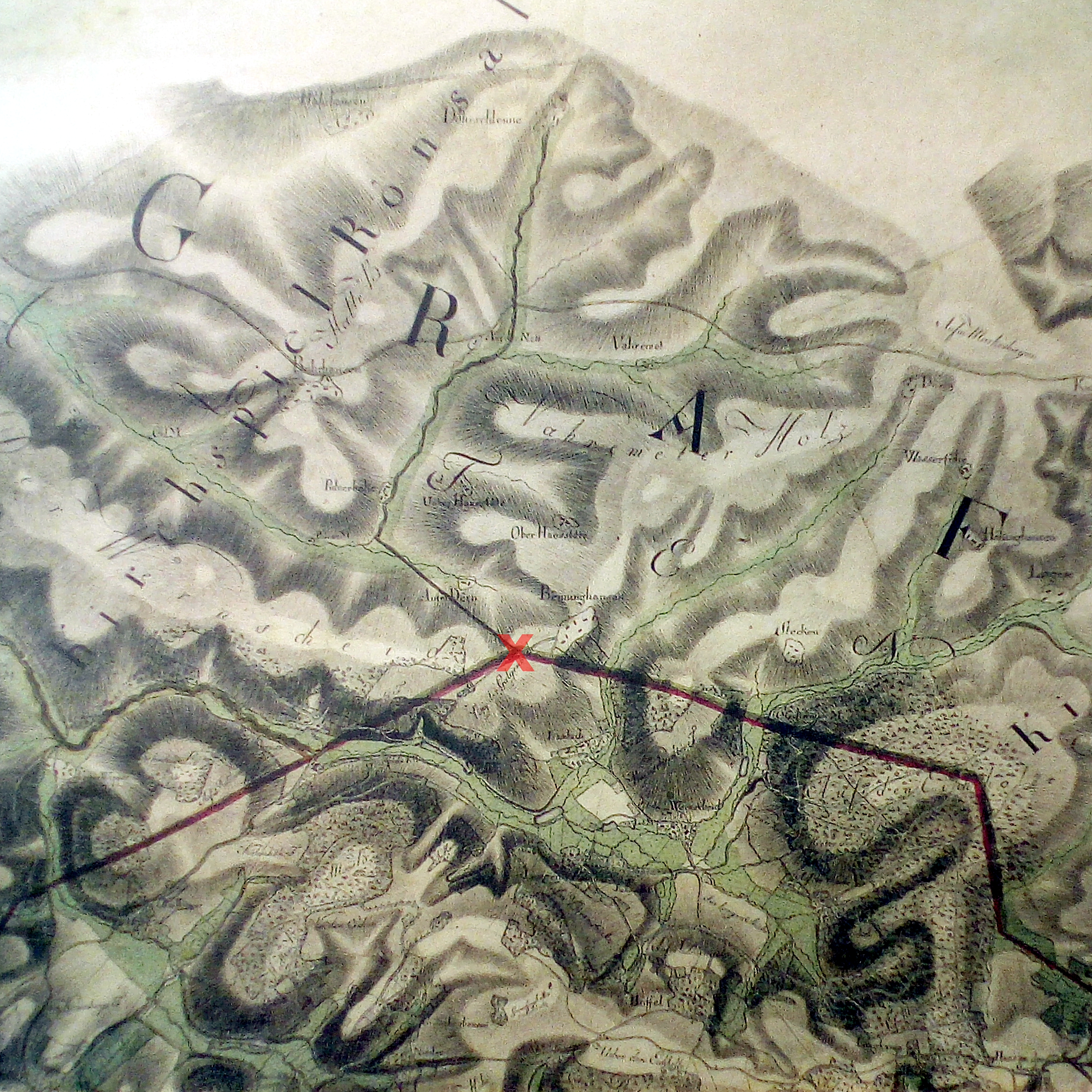 Duchy of Berg / County of Mark boundary tree